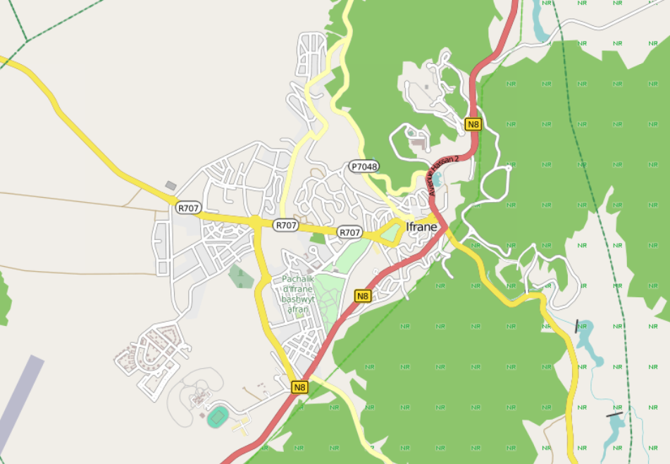 Ifrane City Map from the open source openstreetmap.